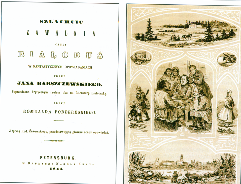 The book by Jan Barszczewski"Shljahtich Zavalnja" in Polish, the edition of 1844